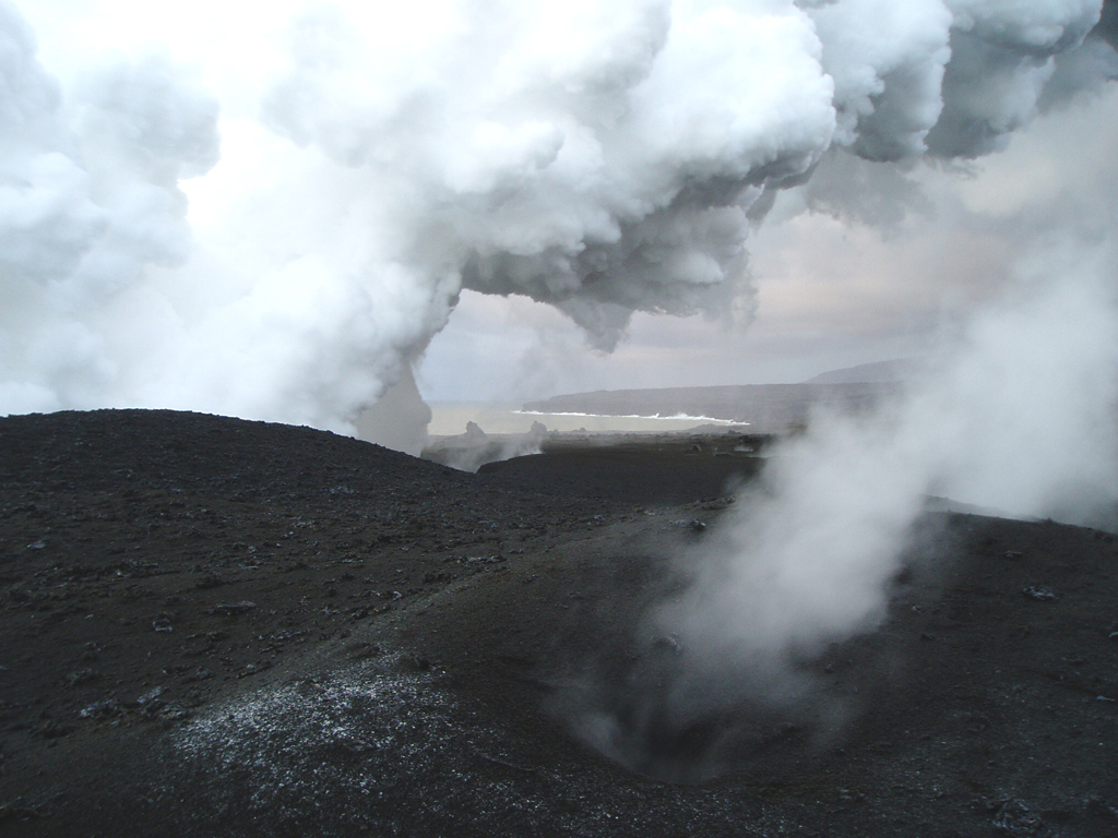 Volcanic plume where lava meets sea near Kalapana, Big Island, Hawaii